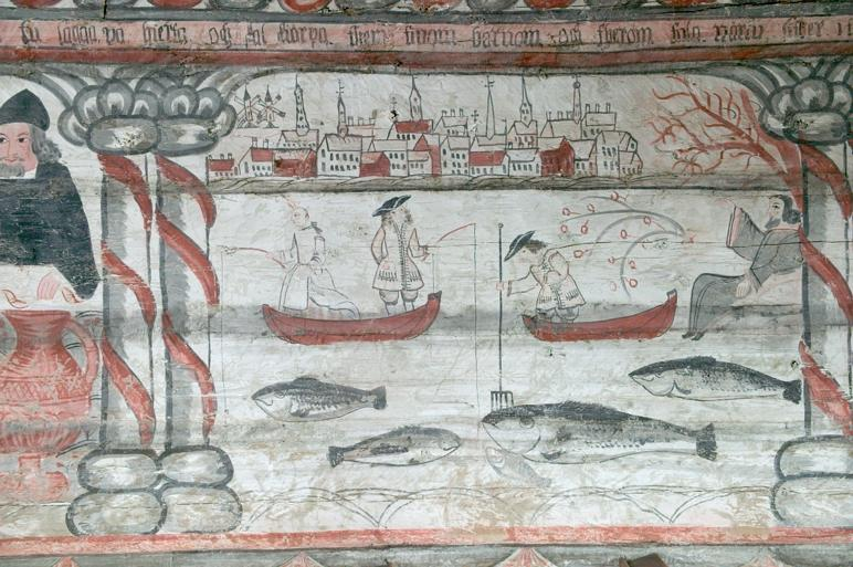 Painting inside Ulvö gamla kapell on Ulvön island, Örnsköldsvik municipality, Sweden.